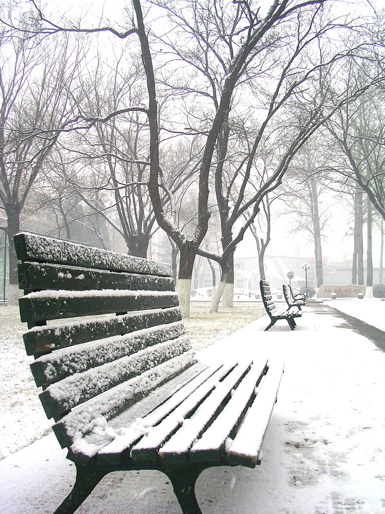 Communication University of China campus